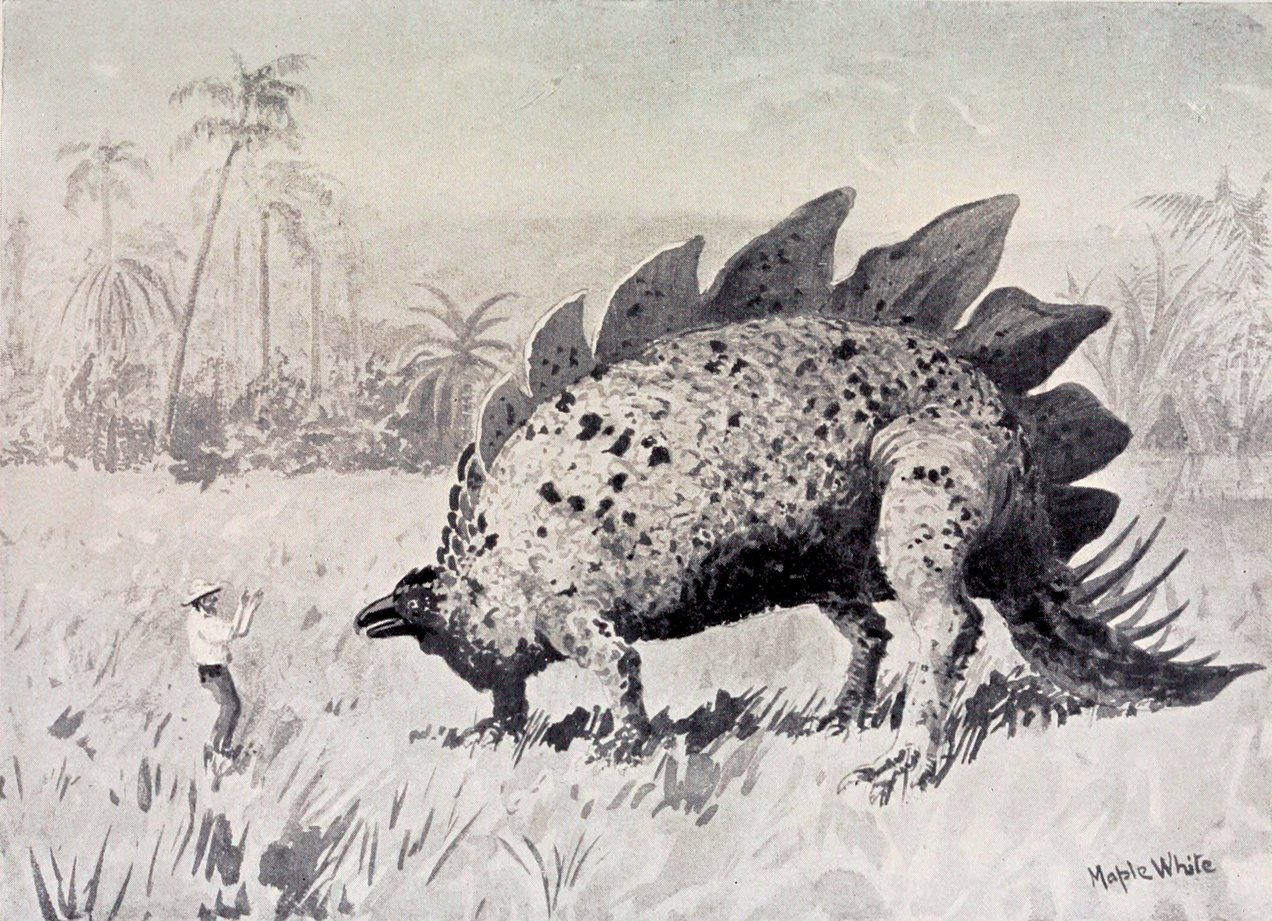 A page scan of a book The Lost World by Arthur Conan Doyleimage cropped, captions removed